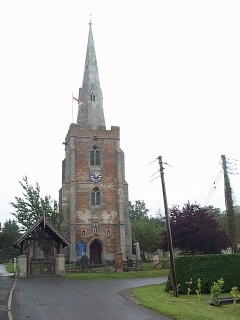 Tydd St Mary parish church, Lincolnshire, seen from the west